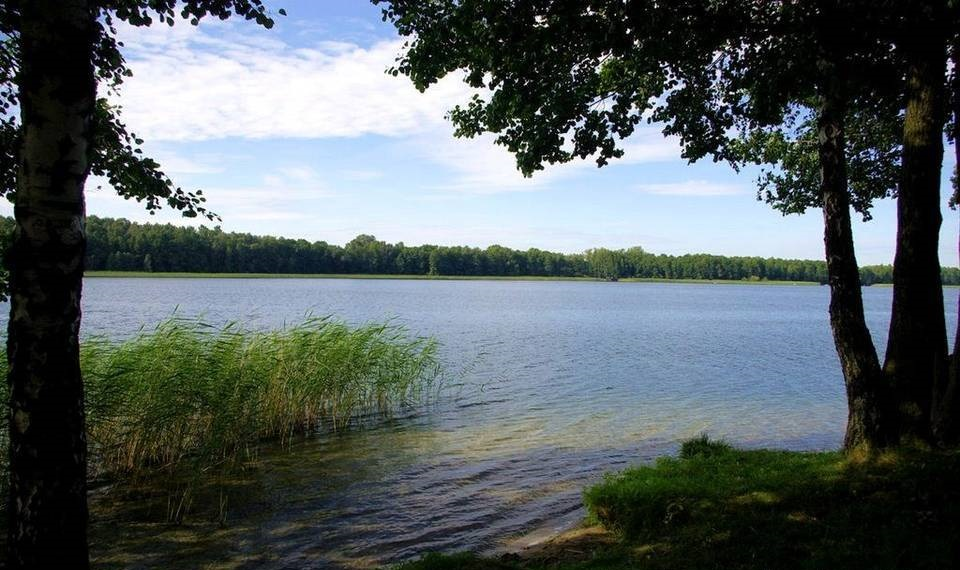 Lake in the village of Dźwiersztyny